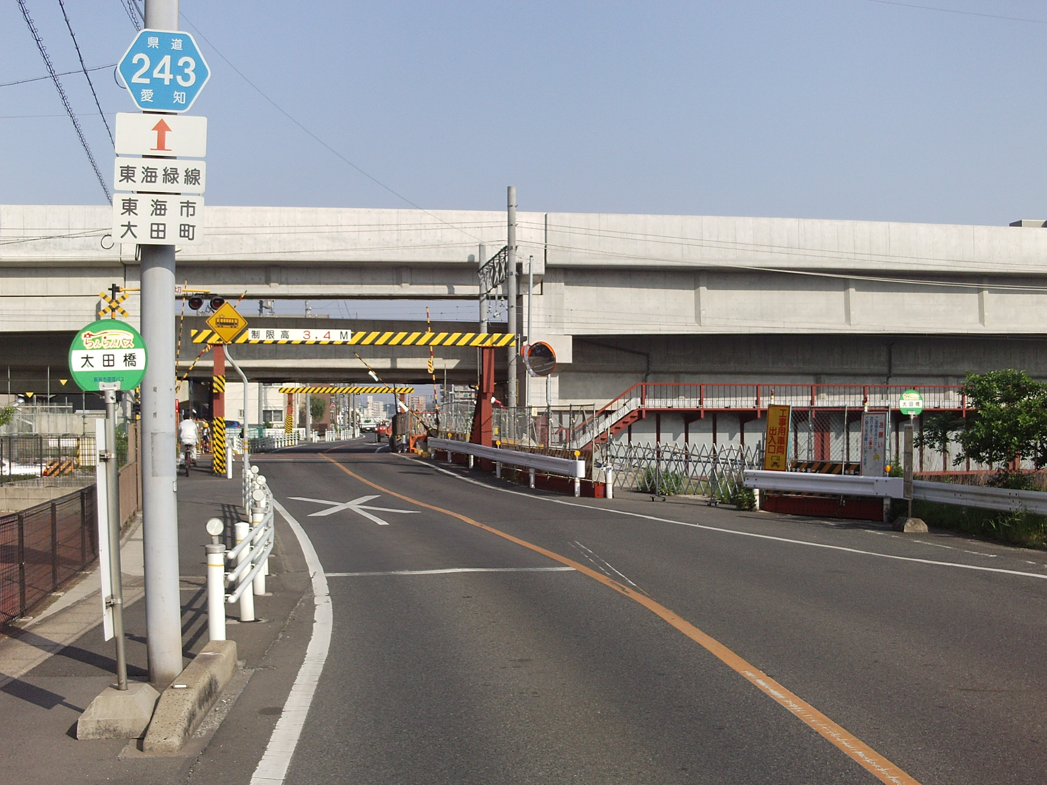 Aichi prefectural road No.243 in Otamachi, Tokai, Aichi.